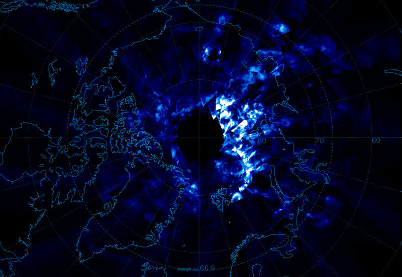 A NASA satellite has captured the first occurrence of mysterious shiny polar clouds that form 50 miles (80 km) above Earth's surface. The AIM (Aeronomy of Ice in the Mesosphere) spacecraft returned some of the first data on these noctilucent or "night shining" clouds on June 11, 2007. In this image of the Arctic regions of Europe and North America, white and light blue represent noctilucent cloud structures. Black indicates areas where no data is available. The clouds form in an upper layer of the Earth’s atmosphere called the mesosphere during the Northern Hemisphere’s summer season which began in mid-May and extends through the end of August and are being seen by AIM’s instruments more frequently as the season progresses. They are also seen in the high latitudes during the summer months in the Southern Hemisphere. Very little is known about how these clouds form over the poles, why they are being seen more frequently and at lower latitudes than ever before, or why they have been growing brighter. AIM will observe two complete cloud seasons over both poles, documenting an entire life cycle of the shiny clouds for the first time. AIM is providing scientists with information about how many of these clouds there are around the world and how different they are including the sizes and shapes of the tiny particles that make them up. Scientists believe that the shining clouds form at high latitudes early in the season and then move to lower latitudes as time progresses. The AIM science team is studying this new data to understand why these clouds form and vary, and if they may be related to global change.